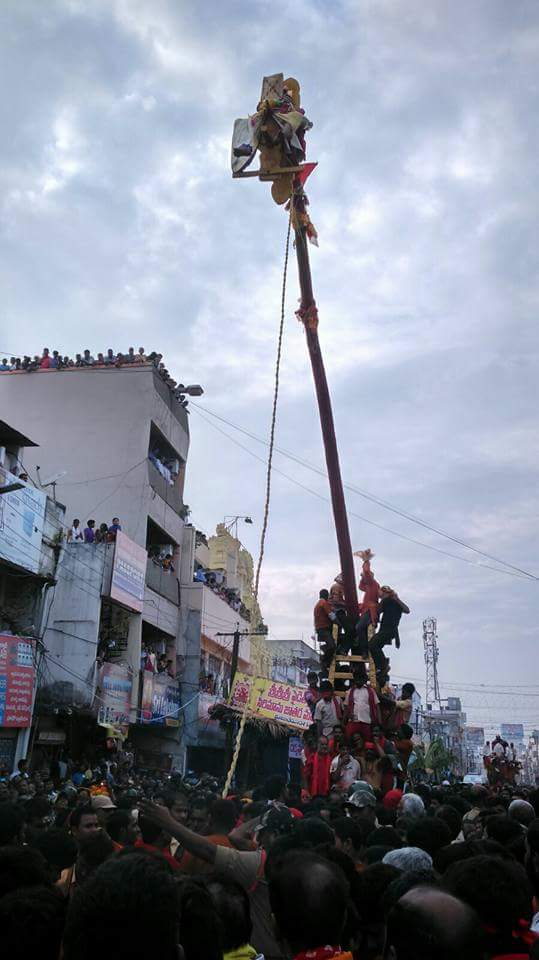 Procession of the holy Sirimanu